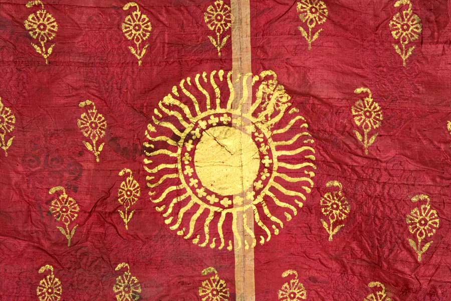 Closeup of the central sun motif on one side of the battle standards, Lichfield catherdral, Lichfield, Staffordshire, UK